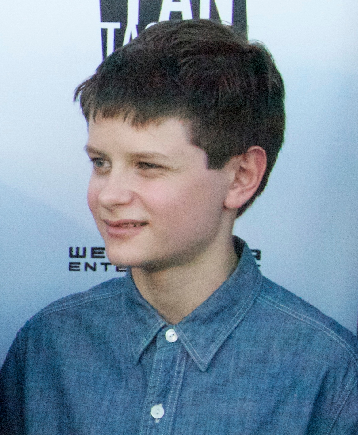 Charlie Tahan at the "Frankenweenie" premiere at the Fantastic Fest in Austin, Texas.